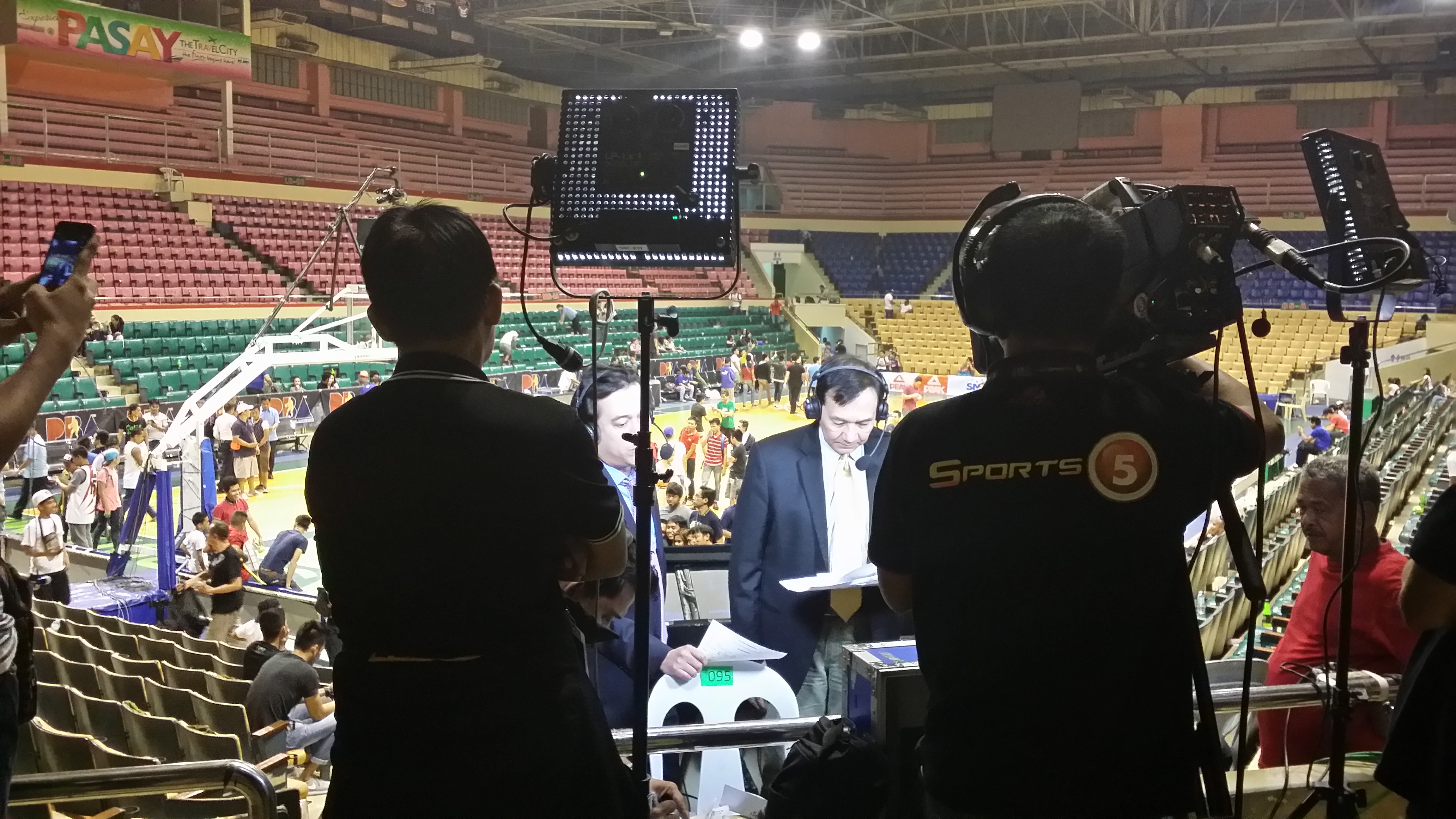 Sports5 BTS - 2015-1210